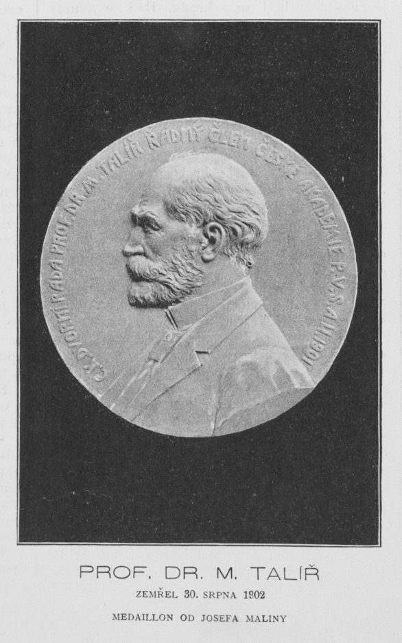 Medal with an engraving of Matouš Talíř (1835-1902), Czech lawyer, statistician and politician, professor of Charles University in Prague.